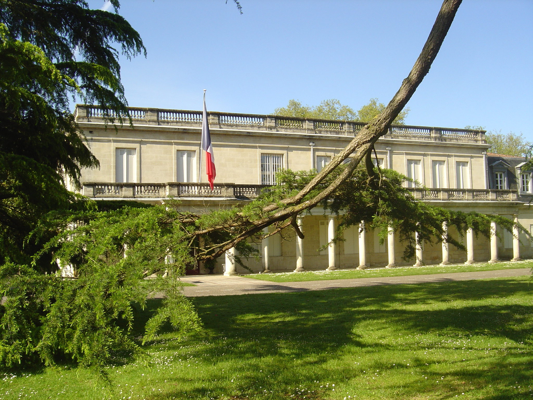 Town hall of Mérignac (Gironde)